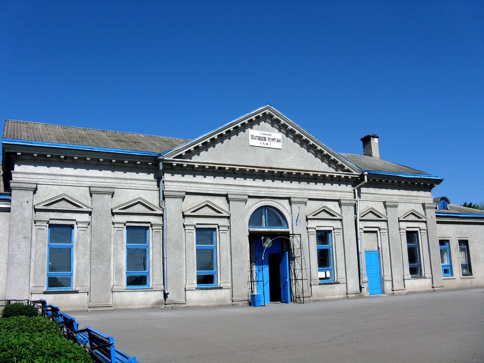 train railway station in Matveev-Kurgan (Rostov Oblast, Russia)